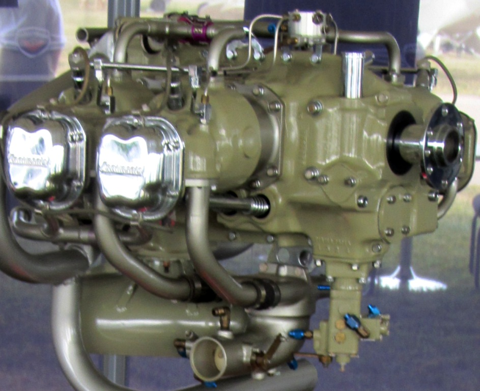 Continental IOL200